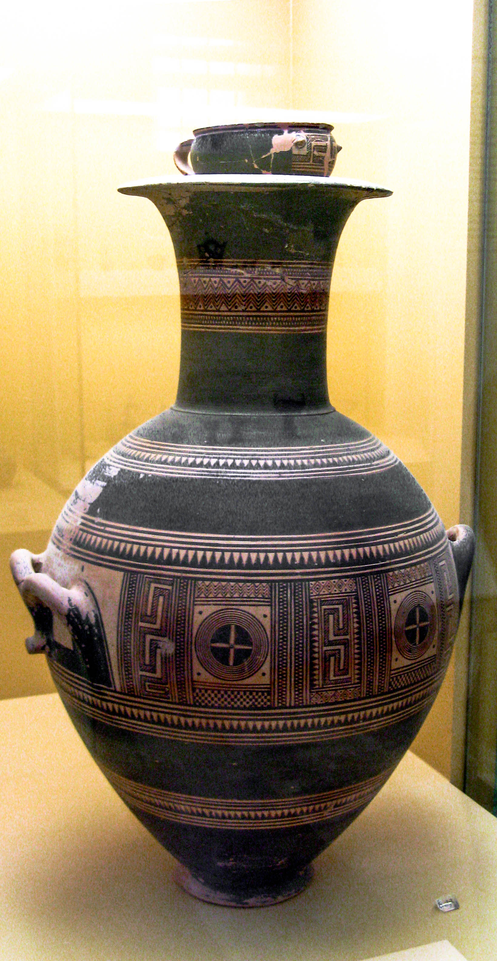 Early geometric Cremation burial of a pregnant woman. 850 B.C. Museum of the Agora of Athens.